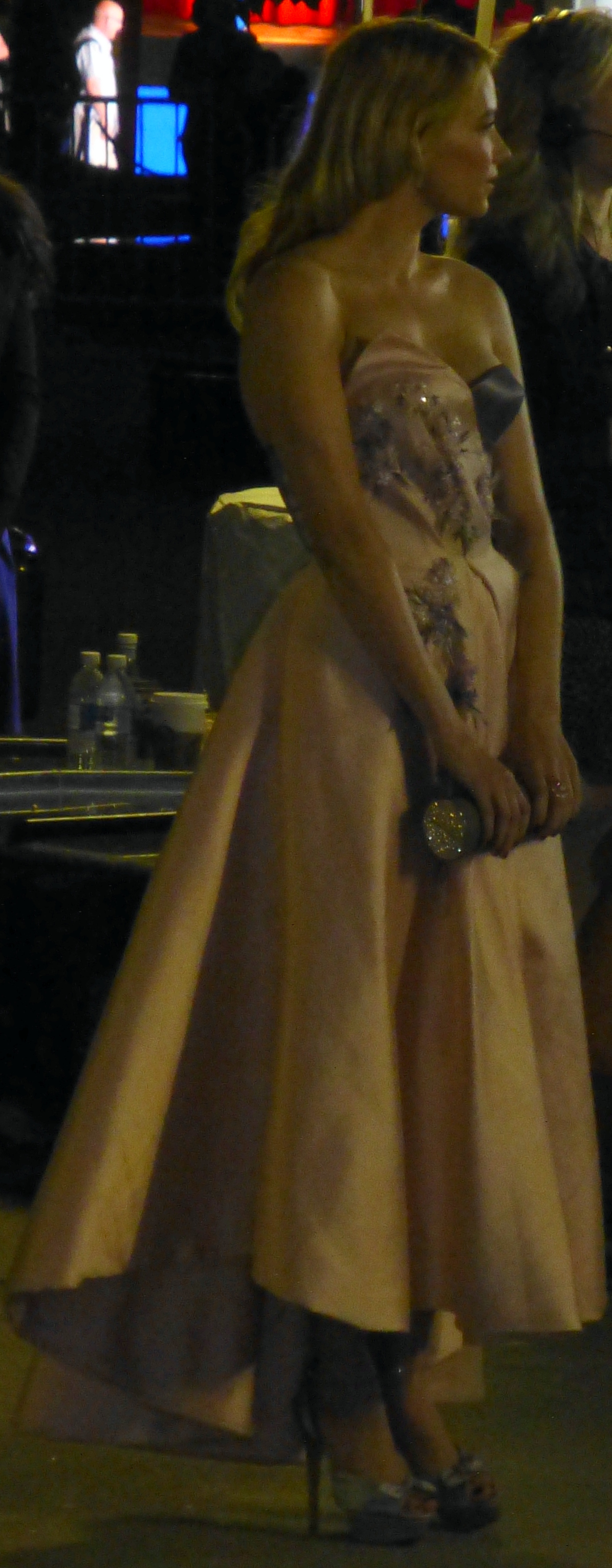 Haley Bennett at the premiere of The Equalizer, 2014 Toronto Film Festival